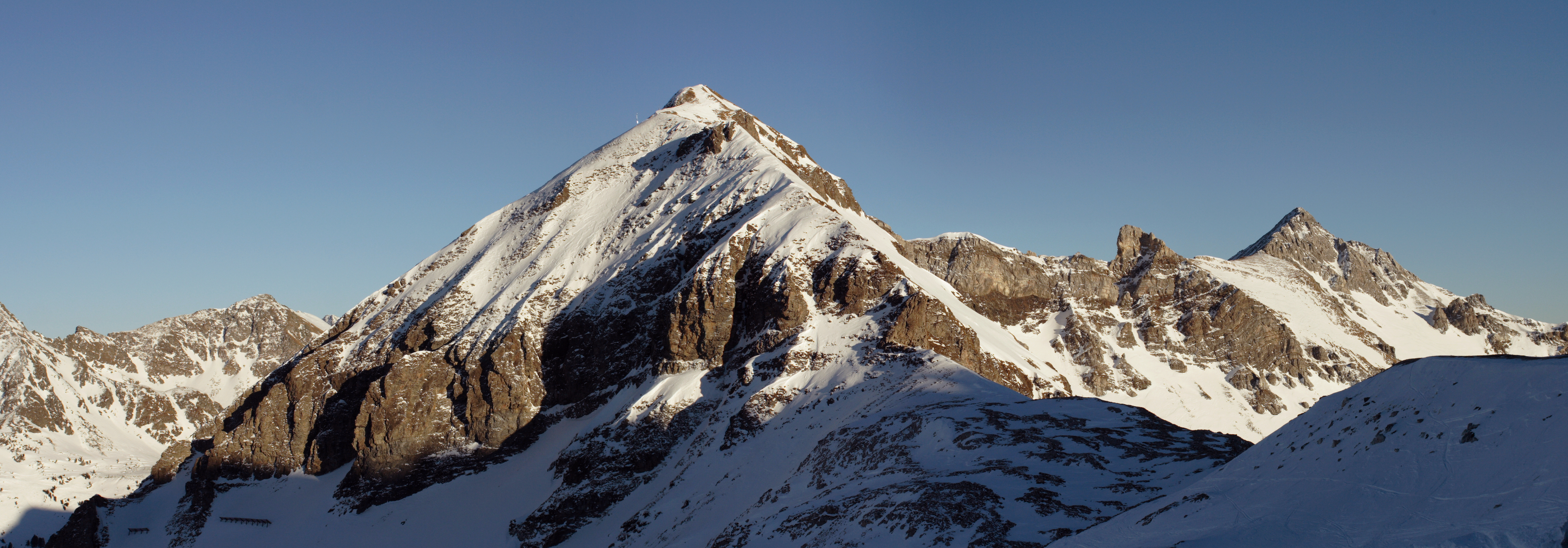 The peak of the Gamsleitenspitze, Obertauern, Austria as seen from the west. The image in itself is a panorama of four shots assembled using Hugin.